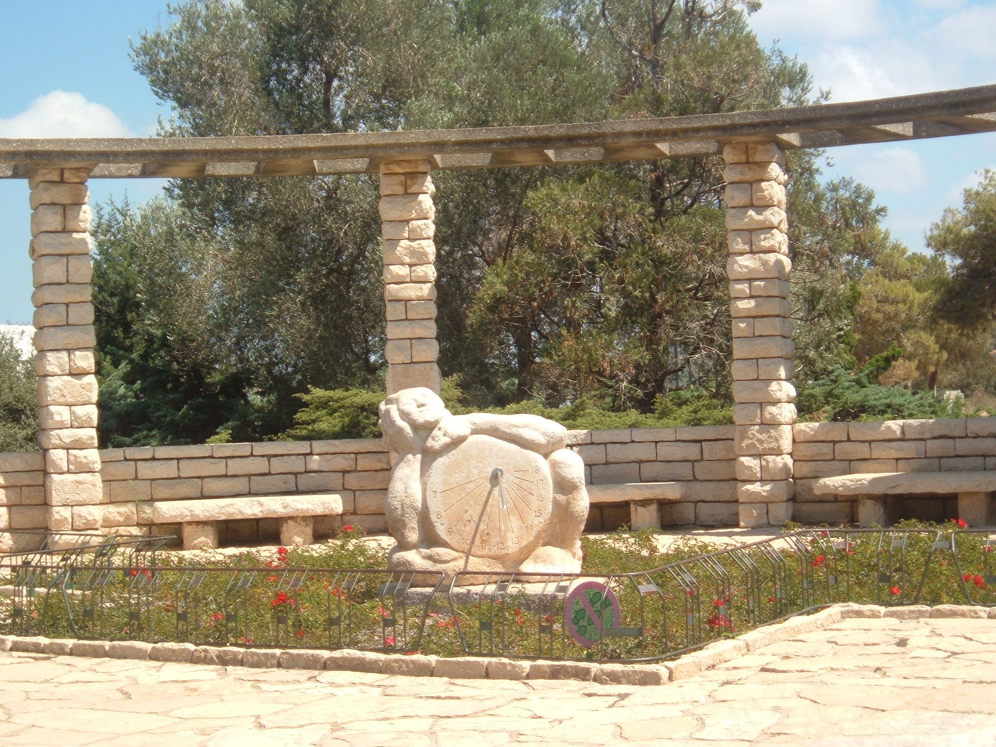 A sundial in Ramat HaNadiv gardens near Zikhron Ya'akov, Israel